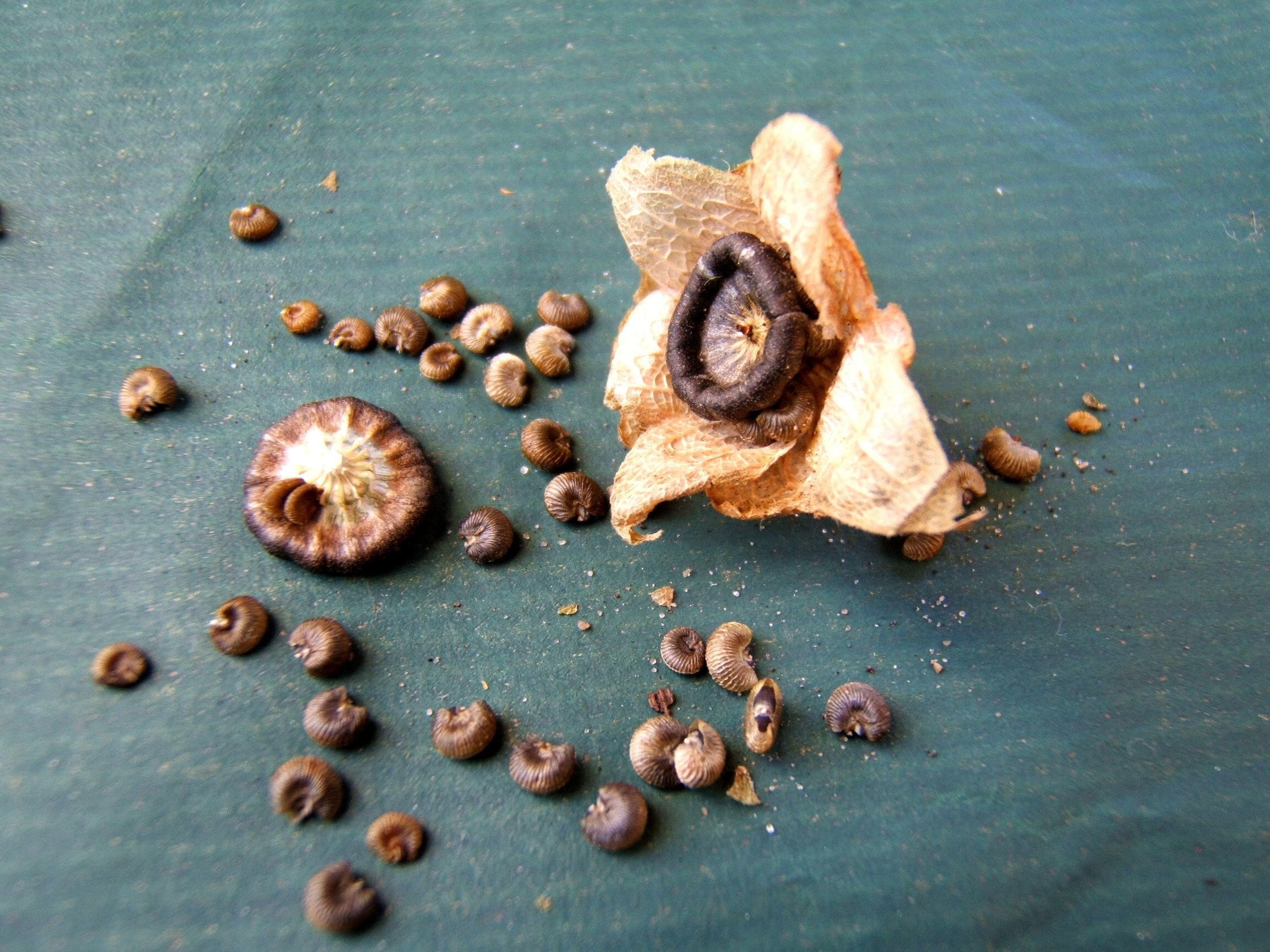 Lavatera trimestris, seeds